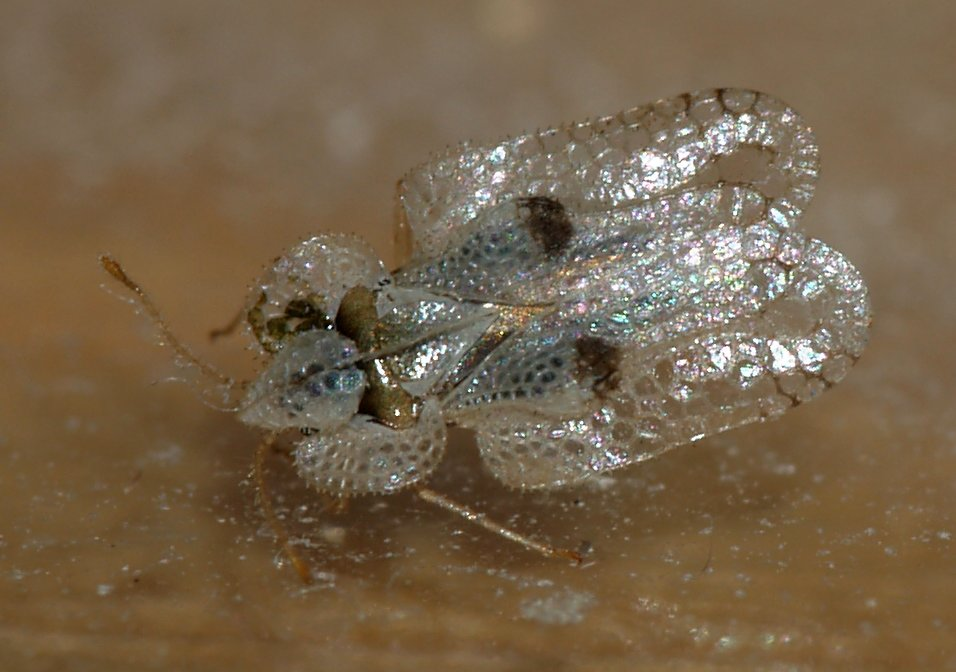 Corythucha ciliata from Cologne, Germany.